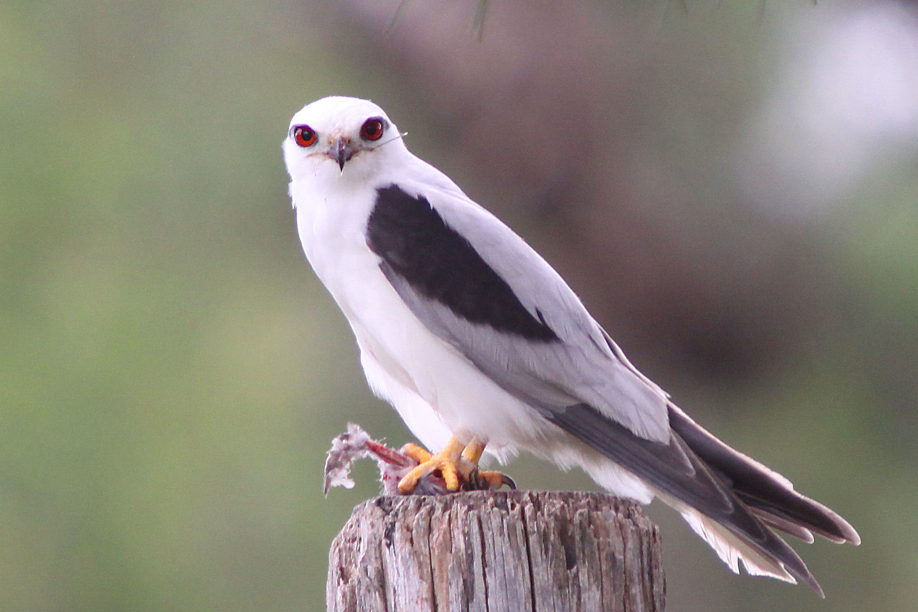 Black-shouldered Kite feeding on a bird at Sandy Hollow, NSW, Australia.